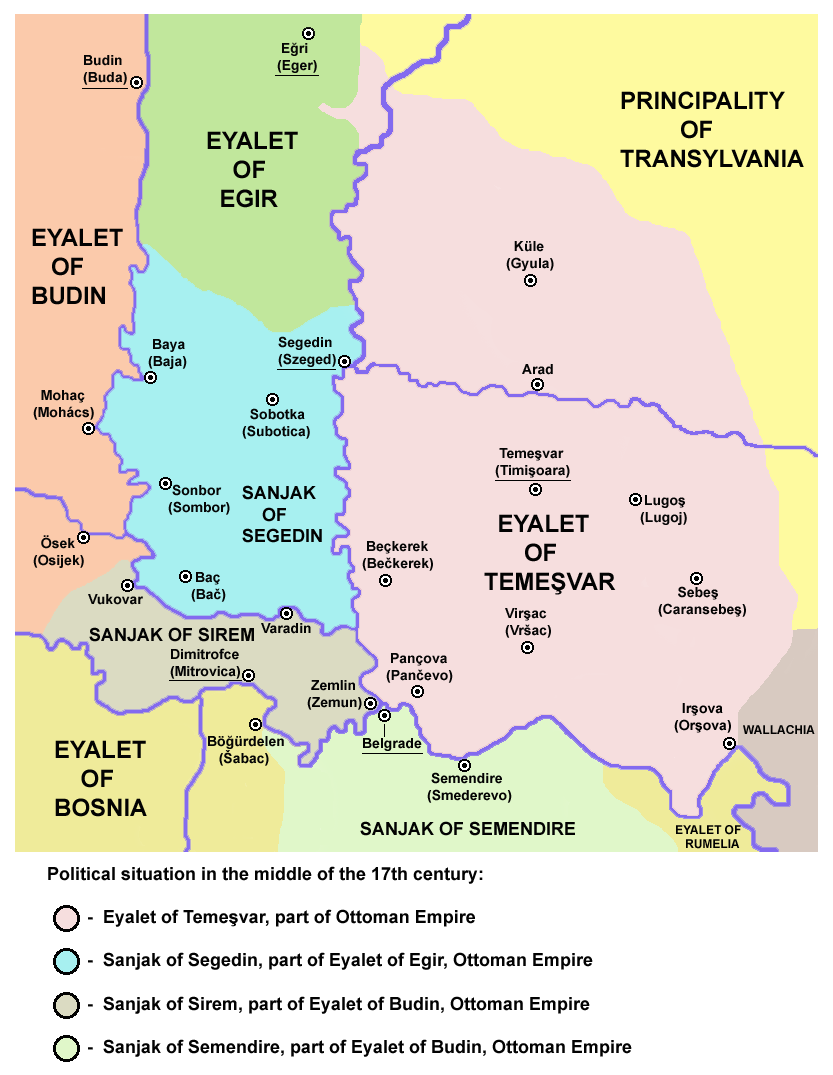 historic map of the Eyalet of Temeşvar, Sanjak of Sirem and Sanjak of Segedin